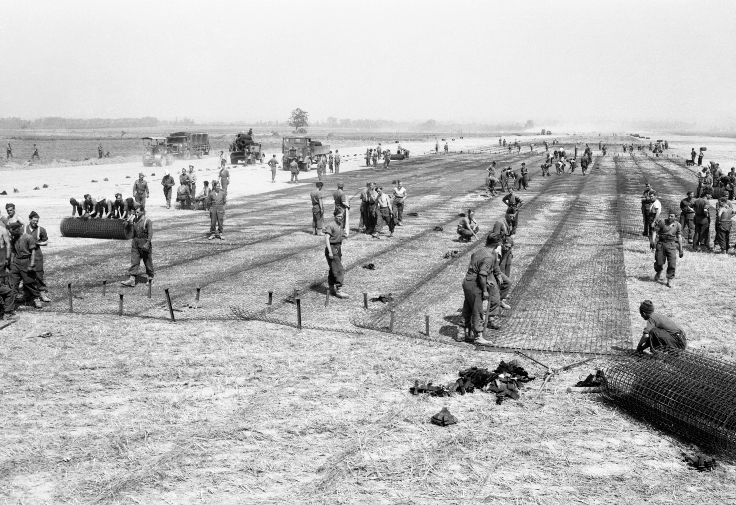 Royal Air Force- 2nd Tactical Air Force, 1943-1945. Square mesh type tracking is laid during the construction of the first airfield in Normandy to be built by the RAF at Lingevres (B19).